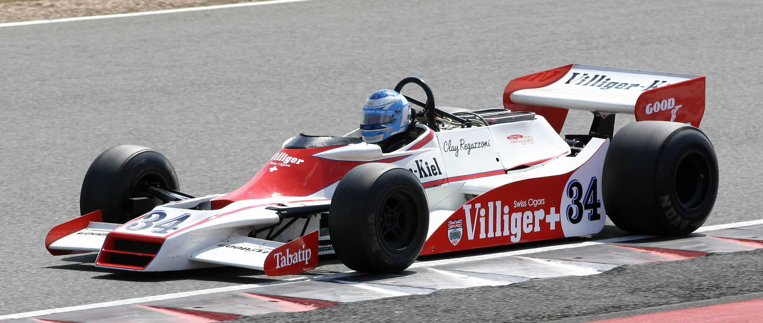 The Shadow DN9 at the 2008 Silverstone Classic race meeting.